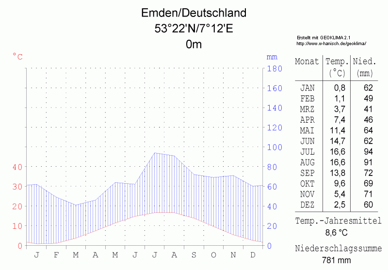 climate chart in the format by Walther and Lieth, metric, °Celsisus and millimeters, made with Geoklima 2.1